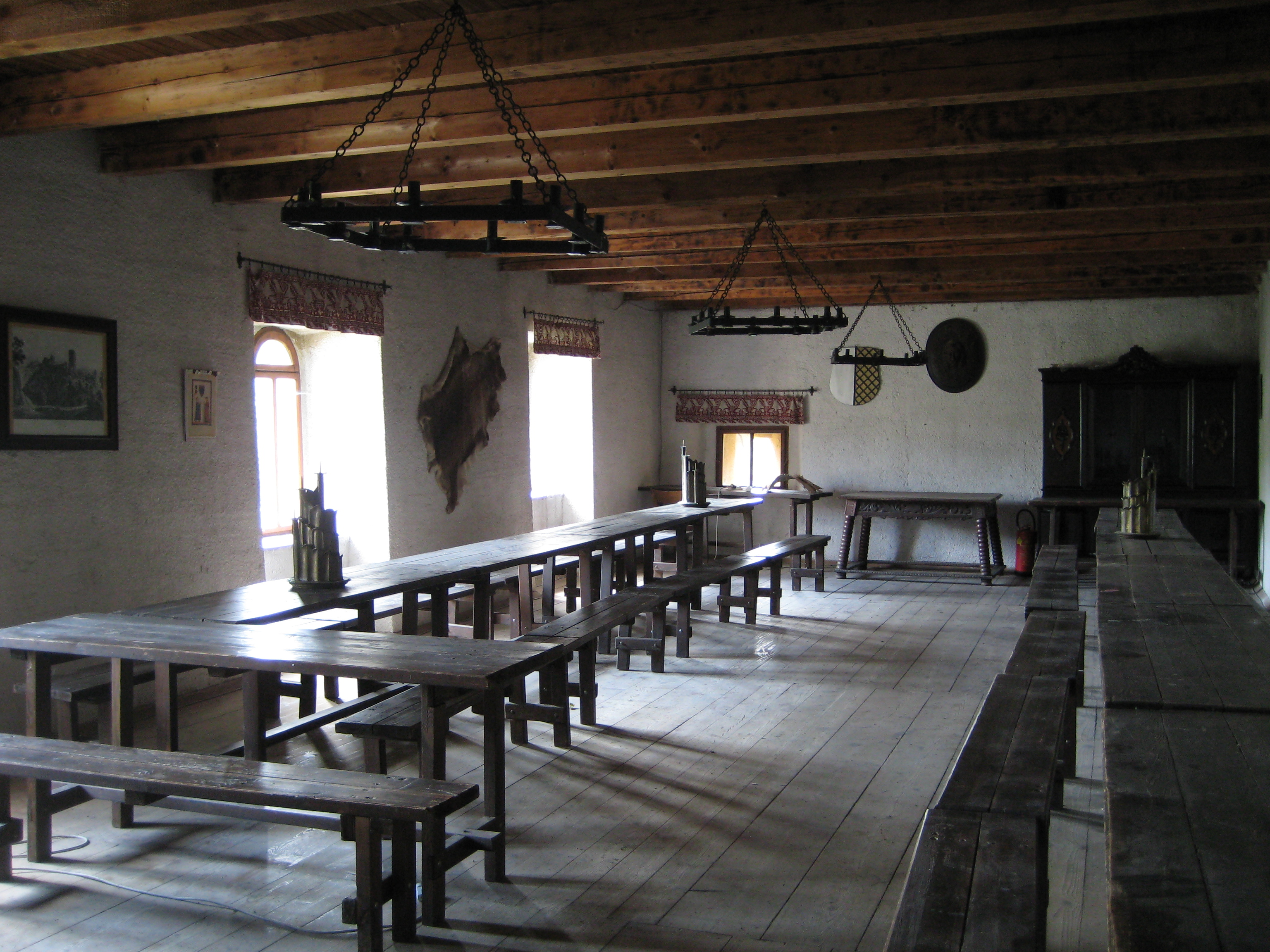 Knight's Hall of Castle Kaja near Merkersdorf in Lower Austria